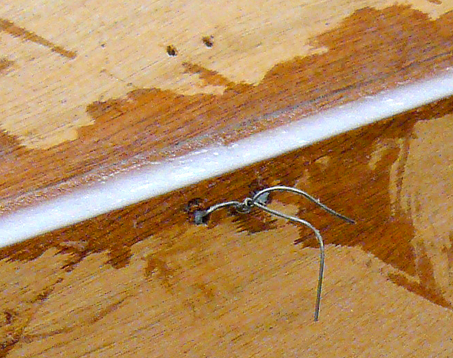 Stitch and glue technique